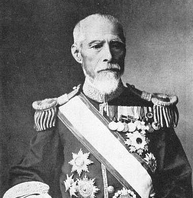 Yoshimoto Hanabusa